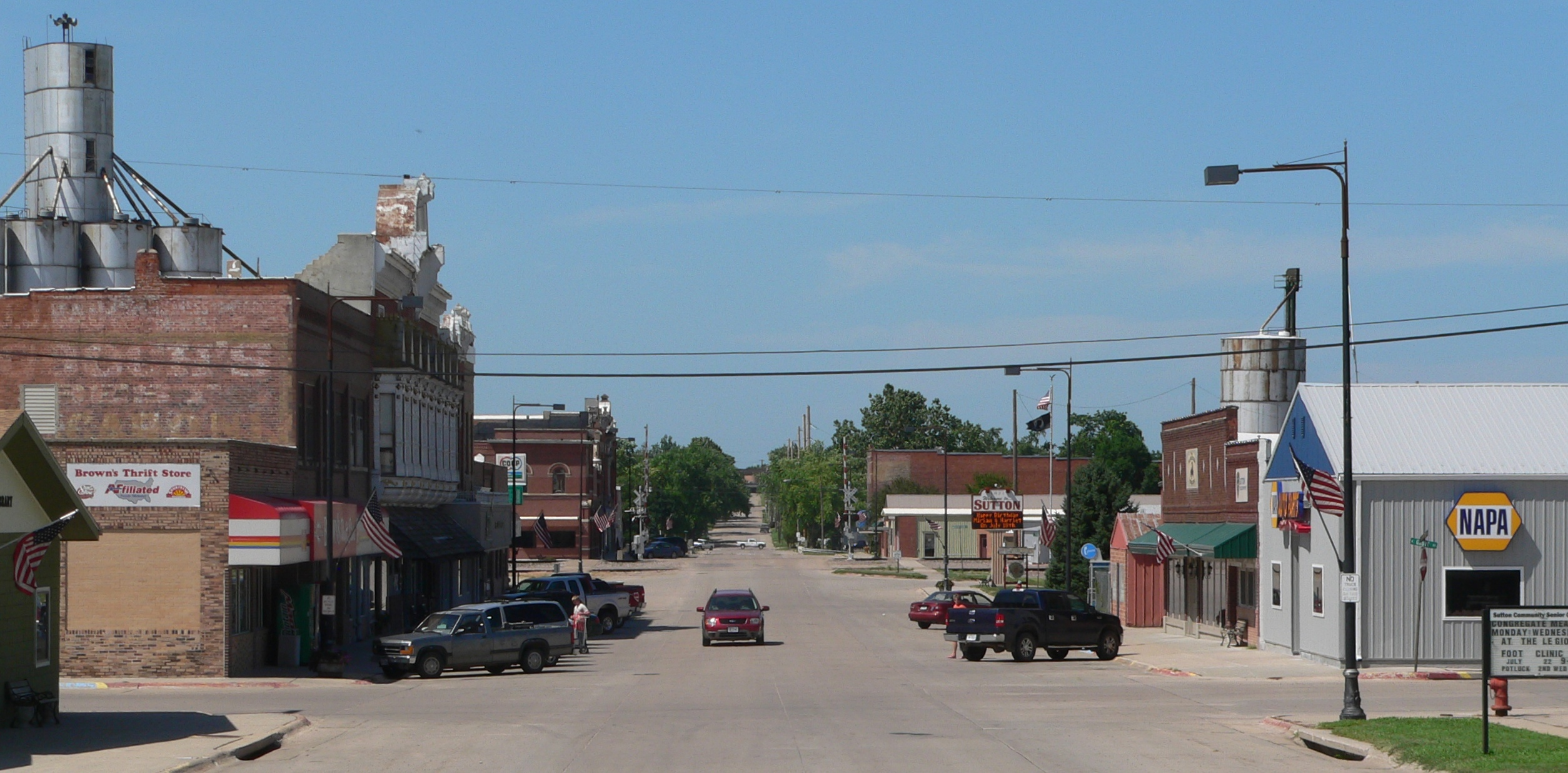 Downtown Sutton, Nebraska: Saunders Avenue, looking north from about Grove Street.